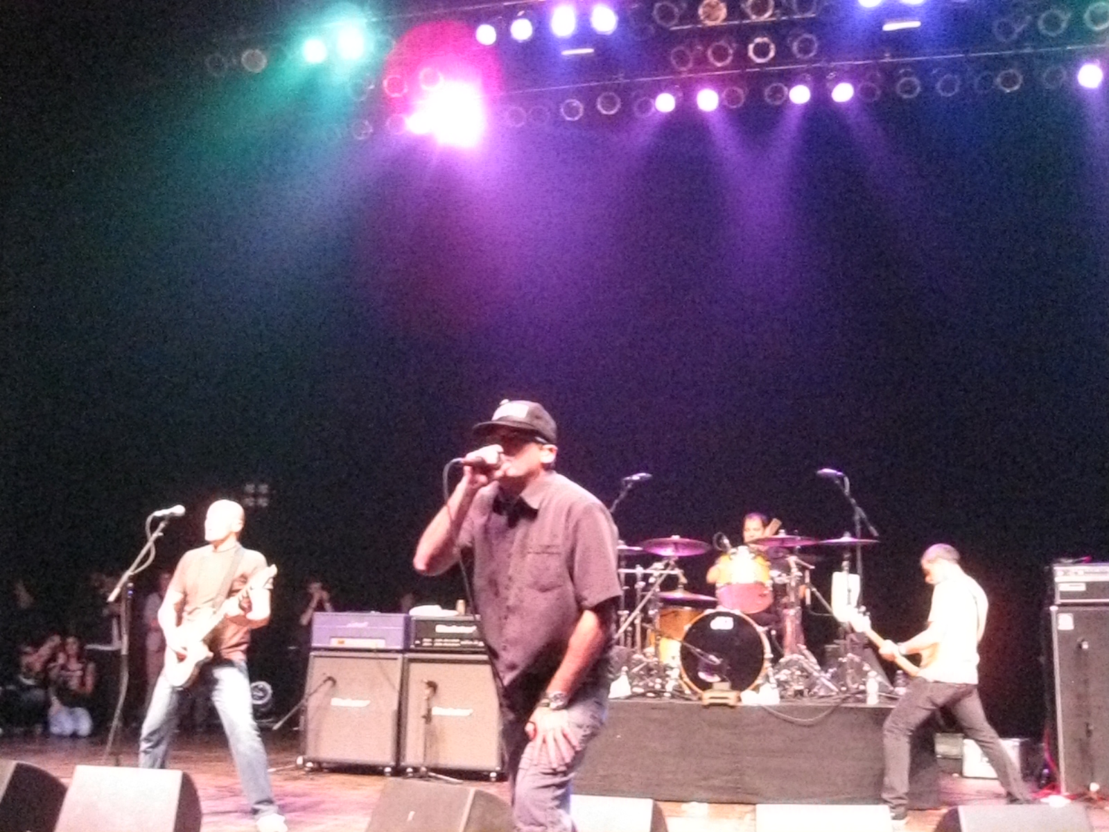 The Descendents performing December 18, 2011 at the Santa Monica Civic Auditorium in Santa Monica, California as part of the GV30 event. Left to right: guitarist Stephen Egerton, singer Milo Aukerman, drummer Bill Stevenson, and bassist Karl Alvarez.